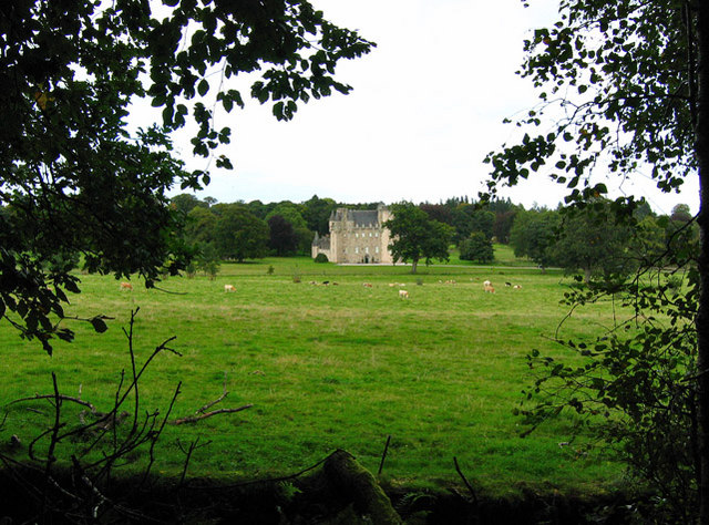 Castle Fraser A view across the fields from Miss Bristow's wood.